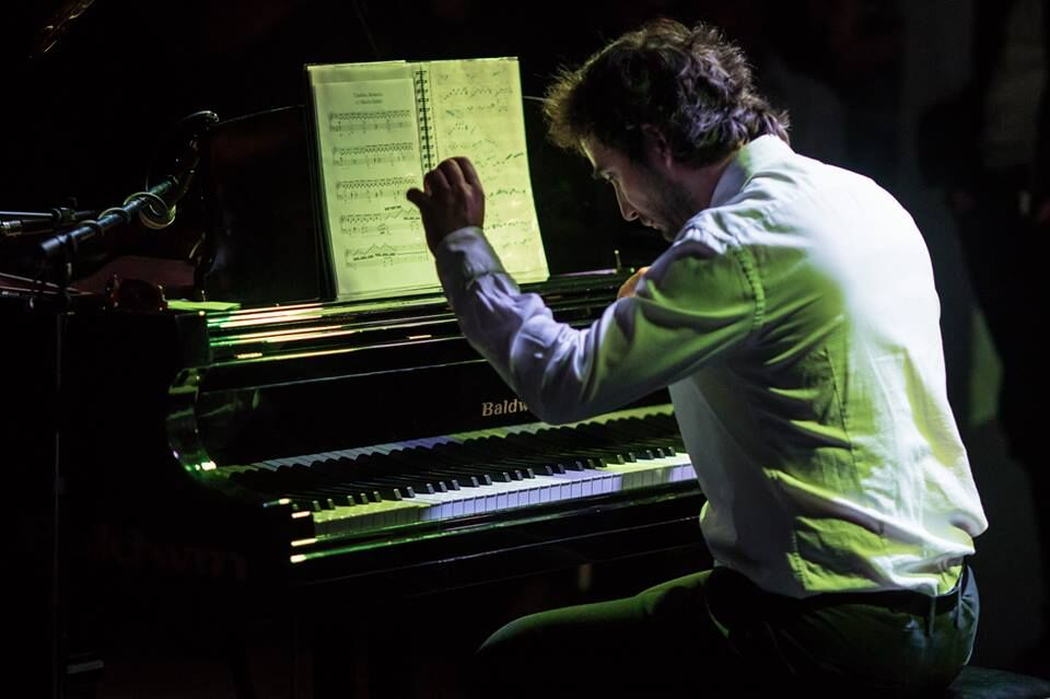 MischaPlayingConcert